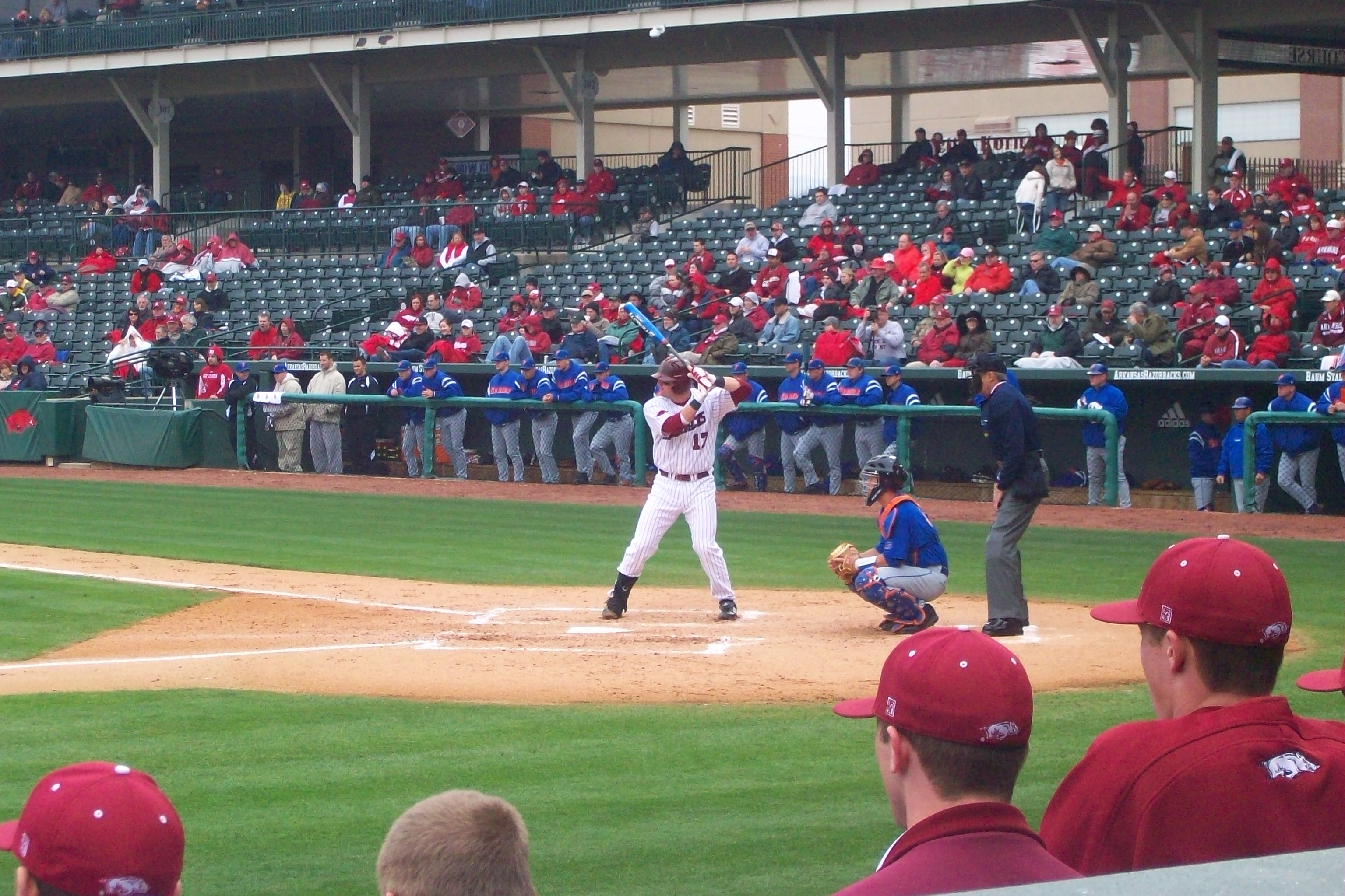 Andy Wilkins batting for the Arkansas Razorbacks